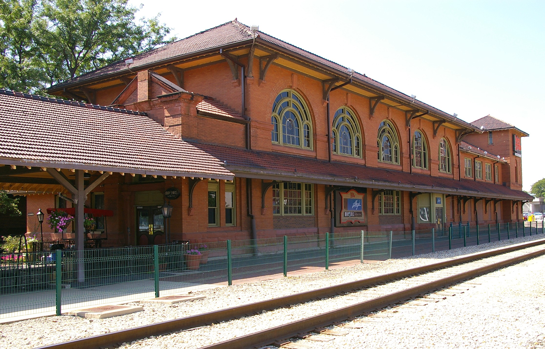 Former Rock Island Line "River Station" in Peoria, IL was built in 1891. Now a restaurant along the Iowa Interstate Railroad.